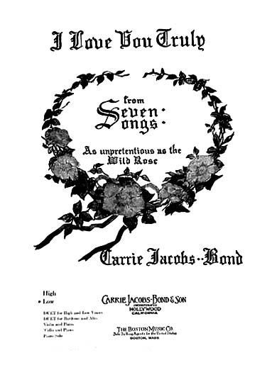 The cover for the sheet music for the song "I Love You Truly", released in 1901